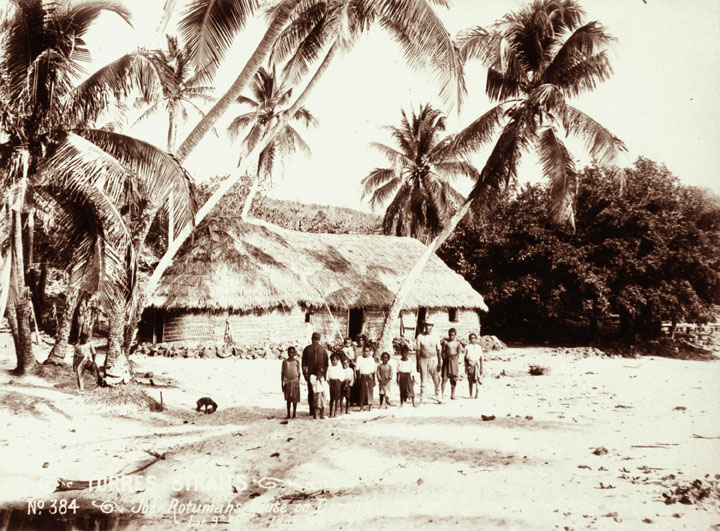 Joe Rotumah's house on Darnley Island with India rubber planted in 1890. (Album print indicates latitude 9°35'S, longitude 143°40'. Torres Strait)